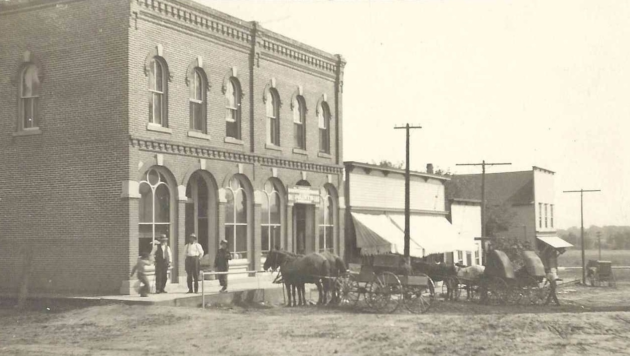 1912 postcard showing the Mercantile Building in Weaver, Minnesota, United States